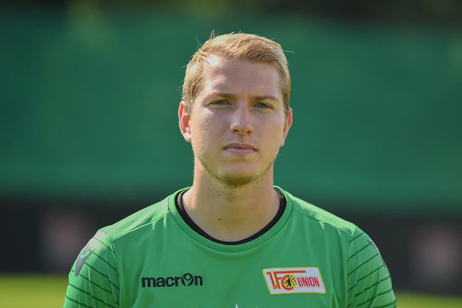 Teamfoto 2016/17